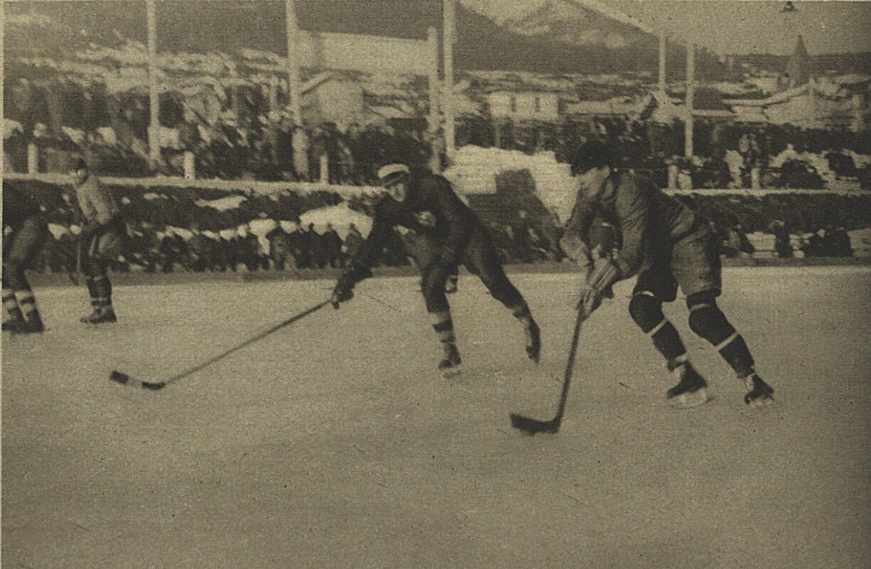 Ice hockey match at the cup of "Tatranský pohár" between LTC Praha and VS Brno. The puck is held by Josef Maleček.